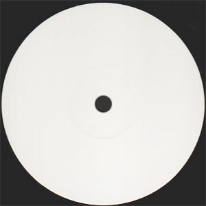 selfmade photo of a "White Label" promo vinyl.